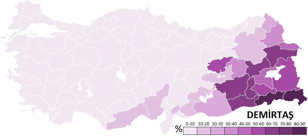 Results obtained by Selahattin Demirtaş in the 2014 Presidential Elections in Turkey, by Provinces